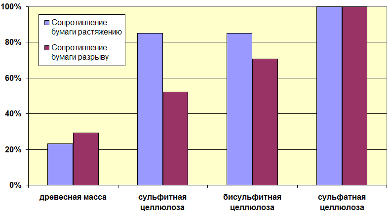 Paper properties of unbleached spruce pulps at 45° SR, showing the effect of different pulp processes (according to Annergren and Rydholm)